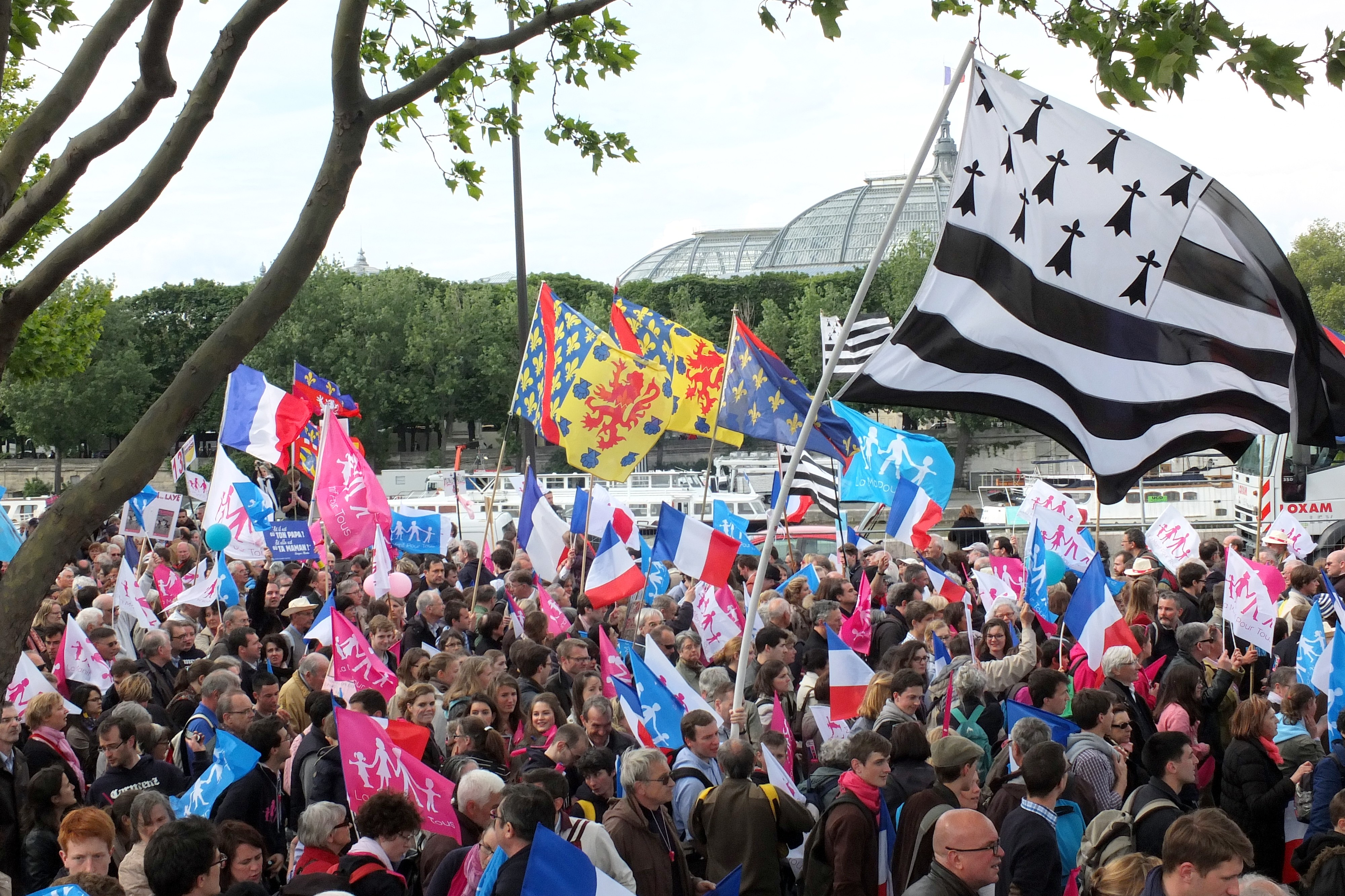 French protestation against Gay marriage and adoption on May 2013